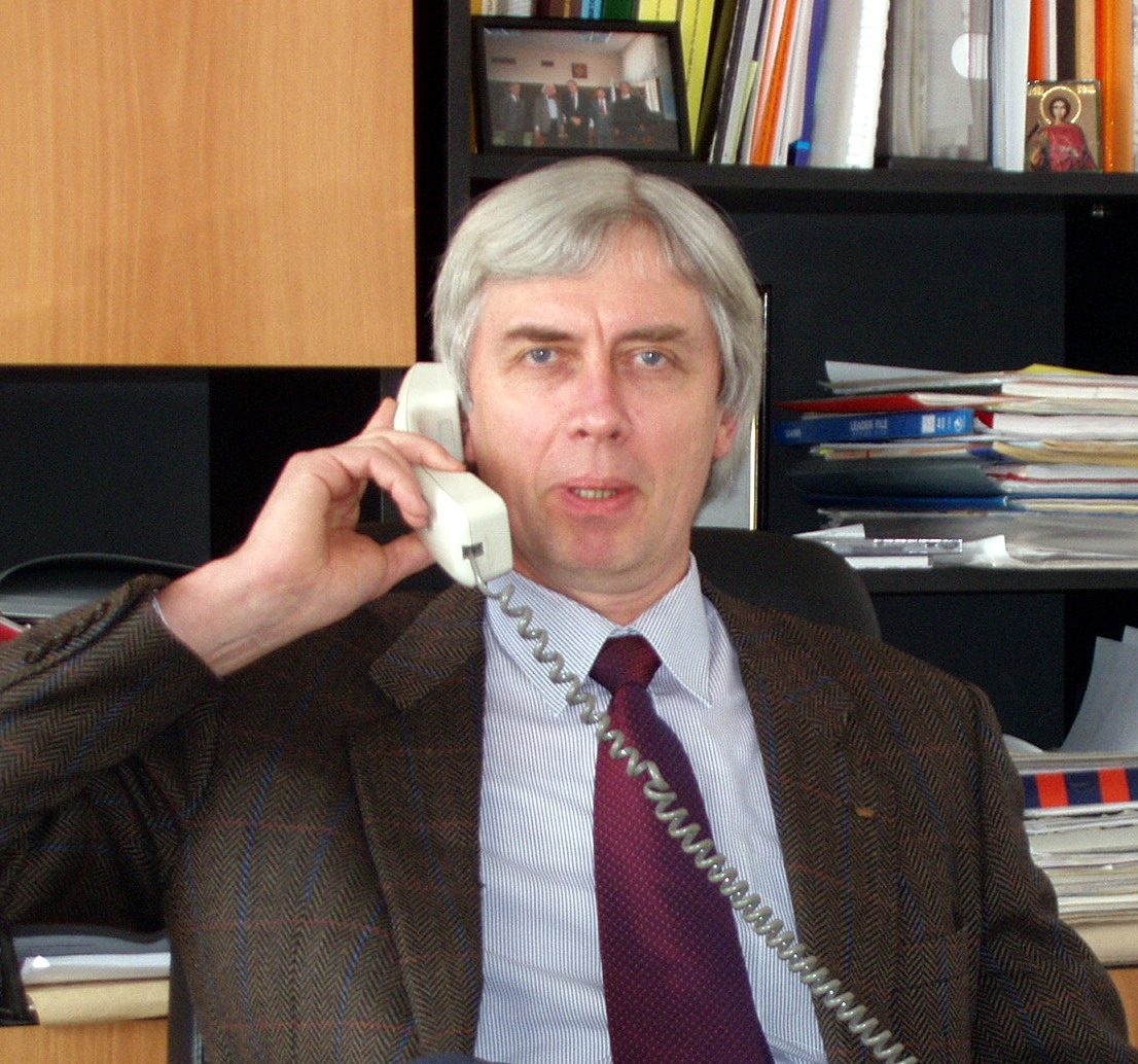 Prof. Dr. Boris Sharkov